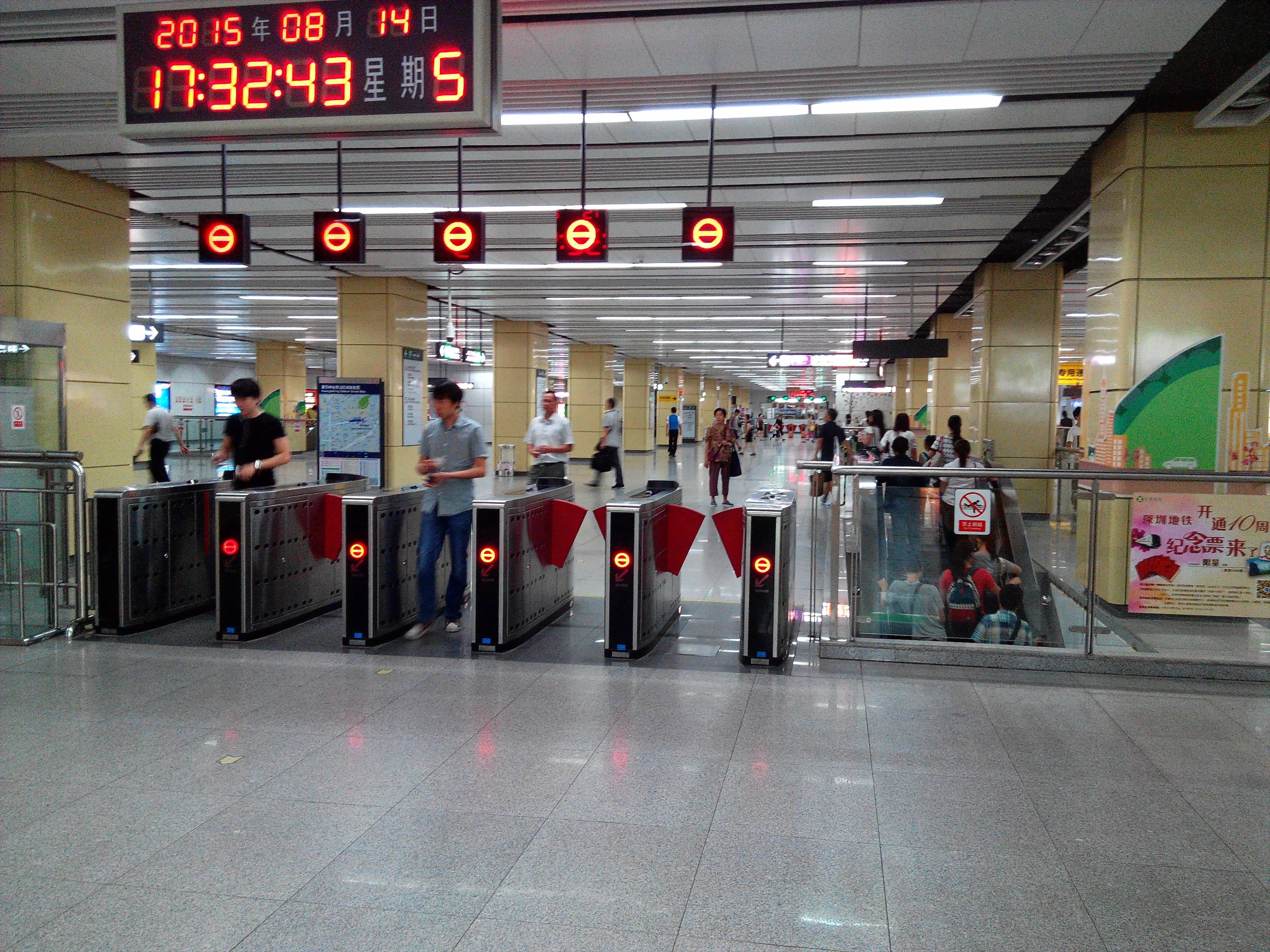 Hall of Shenzhen Metro Huangbeiling Station